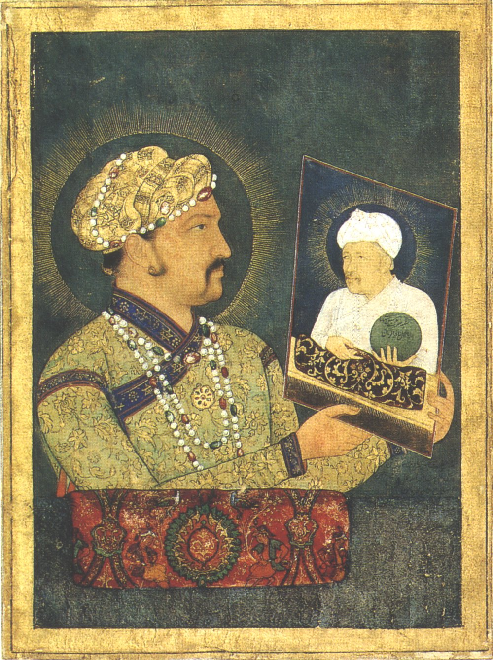 Jahangir with portrait of Akbar, ca. 1614. Akbar's son Jahangir gazes at a portrait of his father, who symbolically offers him the world. From page 139 of The Mughal Emperors by Francis Robinson.